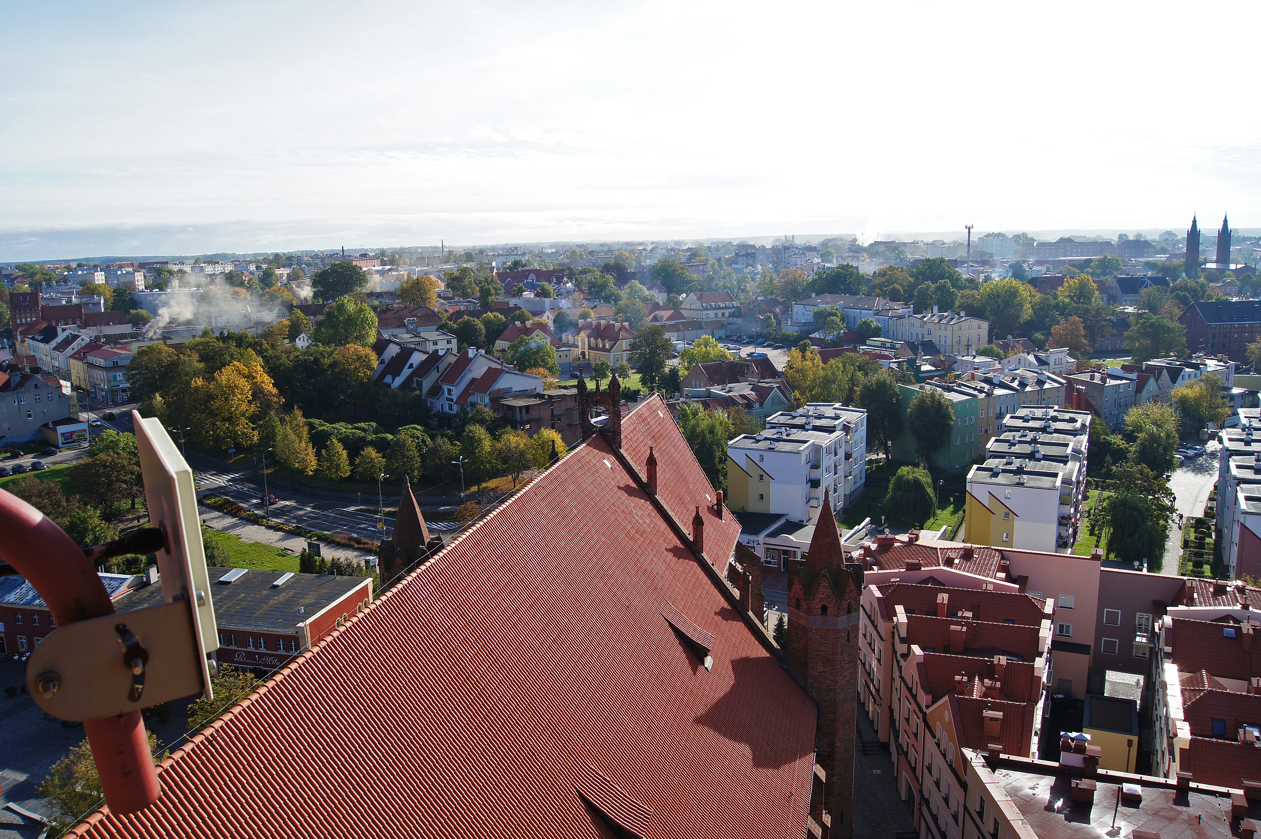 Kwidzyn Panoram